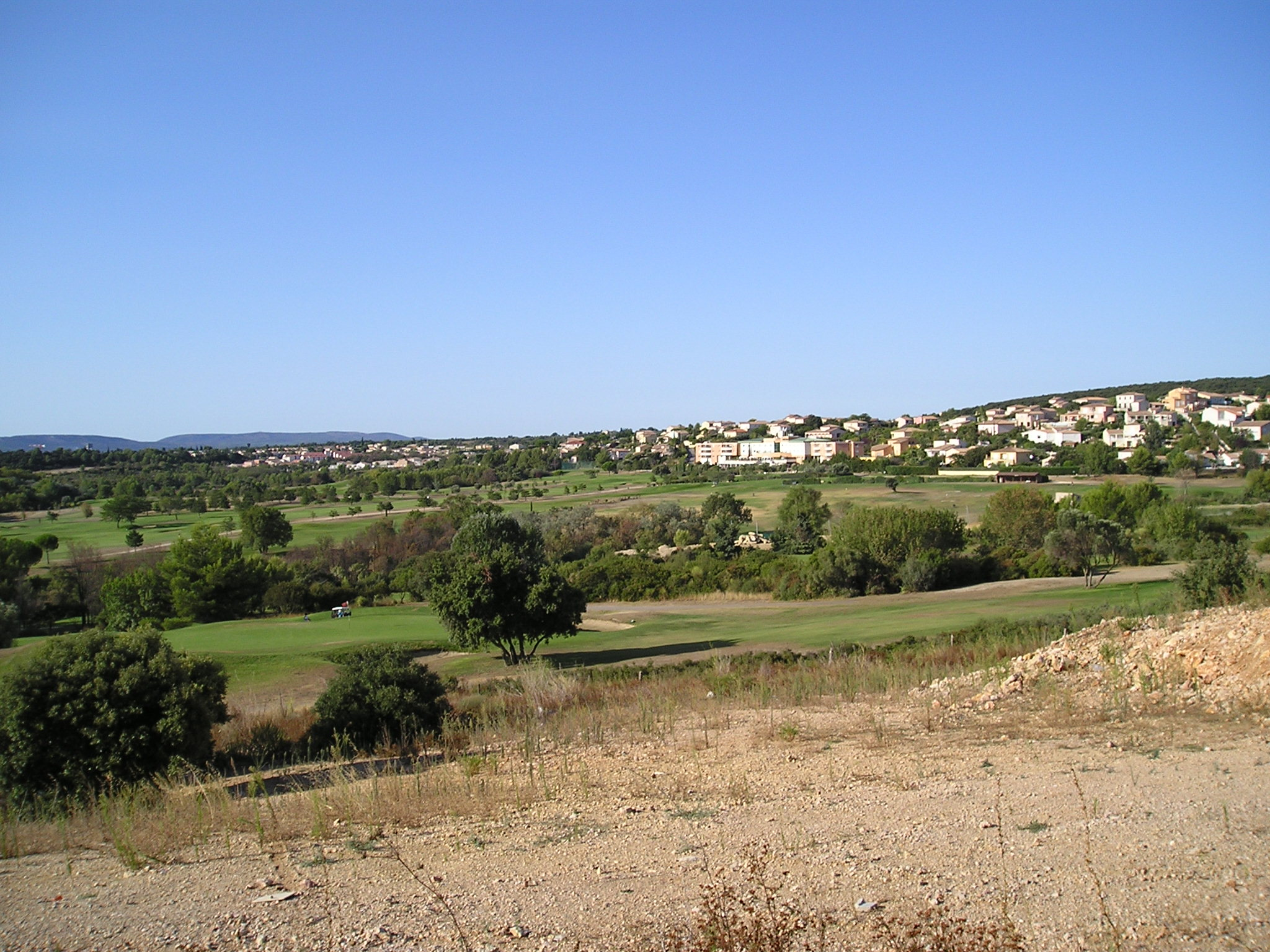 From the Heights of Fontcaude, Northern Juvignac, Hérault, France, a part of Fontcaude golf course viewed from the North, with the Southern parts of Fontcaude.